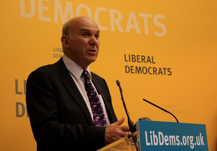 Vince Cable at a Liberal Democrats meeting